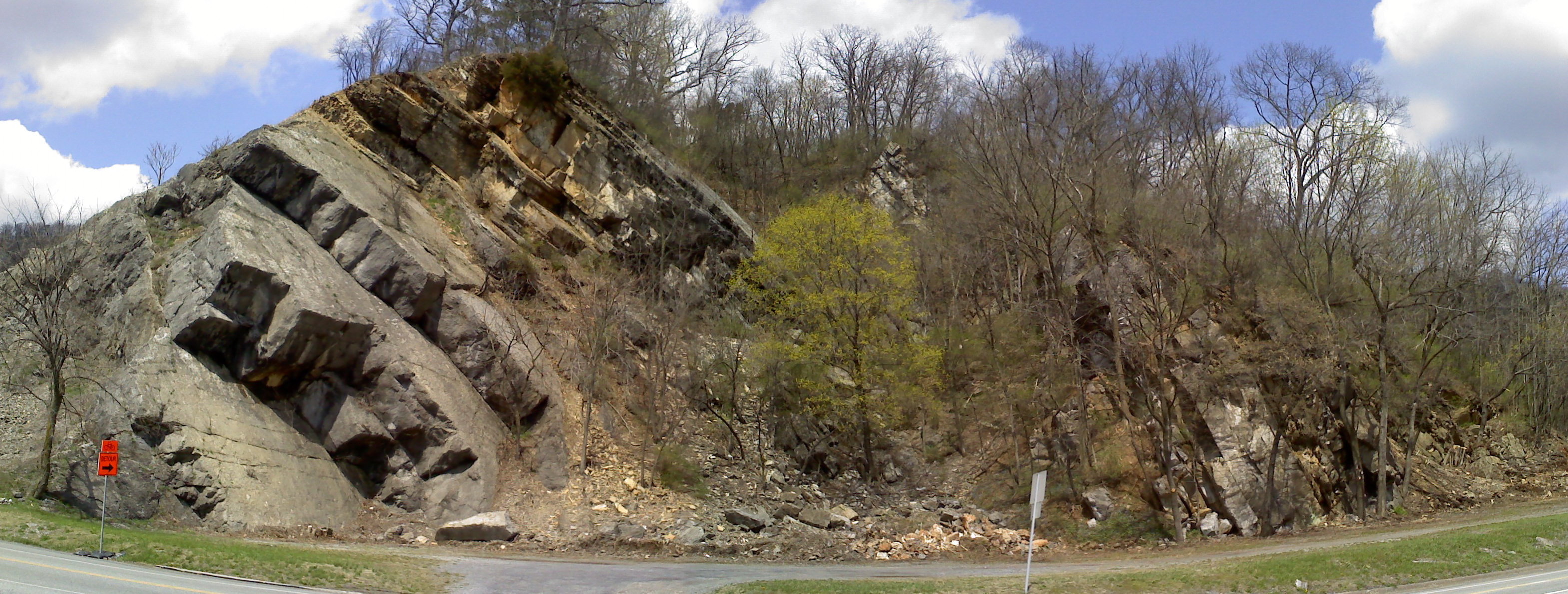 Panorama of outcrop of Keyser Formation (left) and Corriganville and New Creek Members of Old Port Formation in Everett, Pennsylvania along U.S. Route 30. Facing north. April 17, 2011. Two images spliced with Canon Photostitch. This outcrop is pictured in Figure 7-7 in The Geology of Pennsylvania, Special Publication 1, 1999, edited by Charles H. Shultz, published by Pennsylvania Geologic Survey and Pittsburgh Geological Society , where the following caption is given: Folded and tilted Keyser and Corriganville-New Creek limestones exposed in Everett, Bedford County, are typical of Helderbergian Stage limestones.